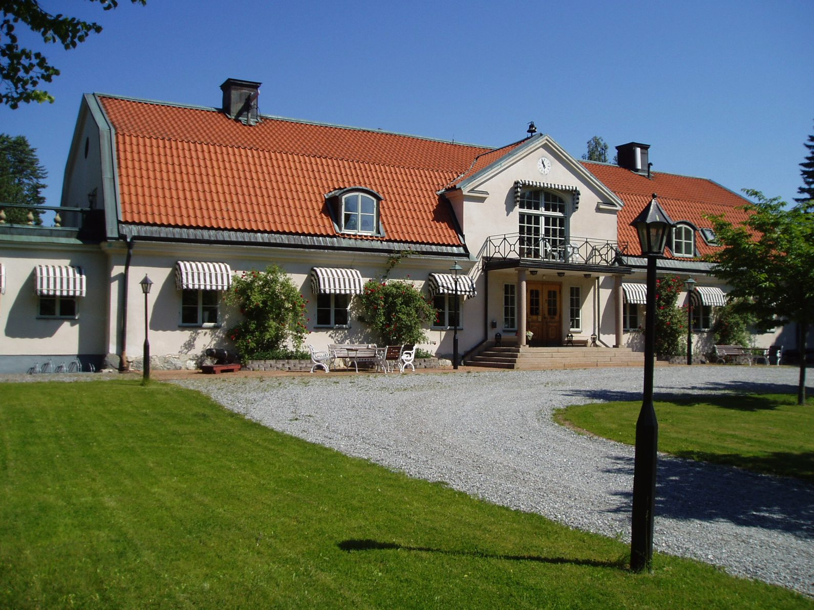 Gällövsta herrgård, mansion in Upplands-Bro, Sweden